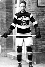 Ice hockey player Eddie Carpenter